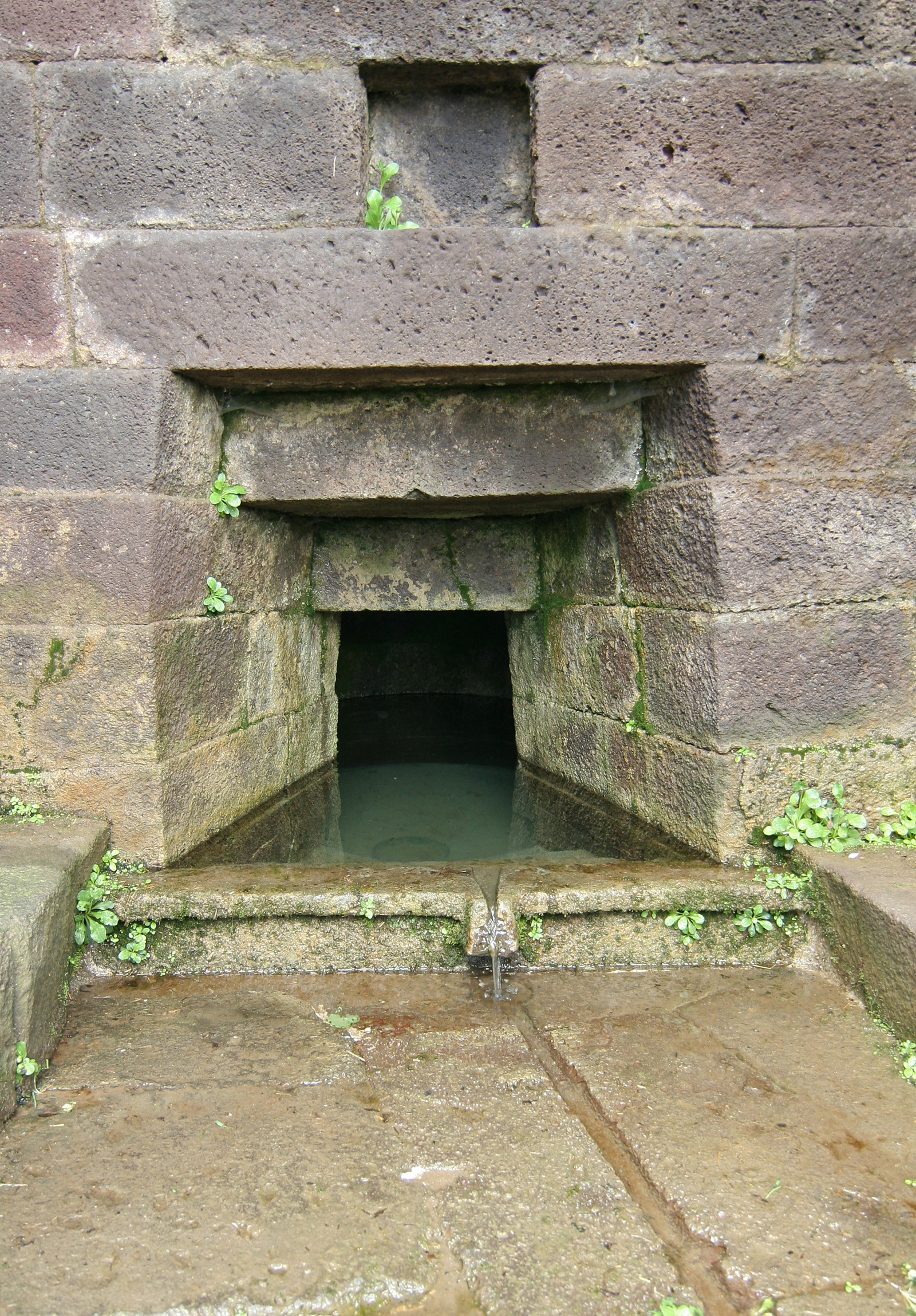 Detail of the sacred source Su Tempiesu near Orune, Sardegna, Italy